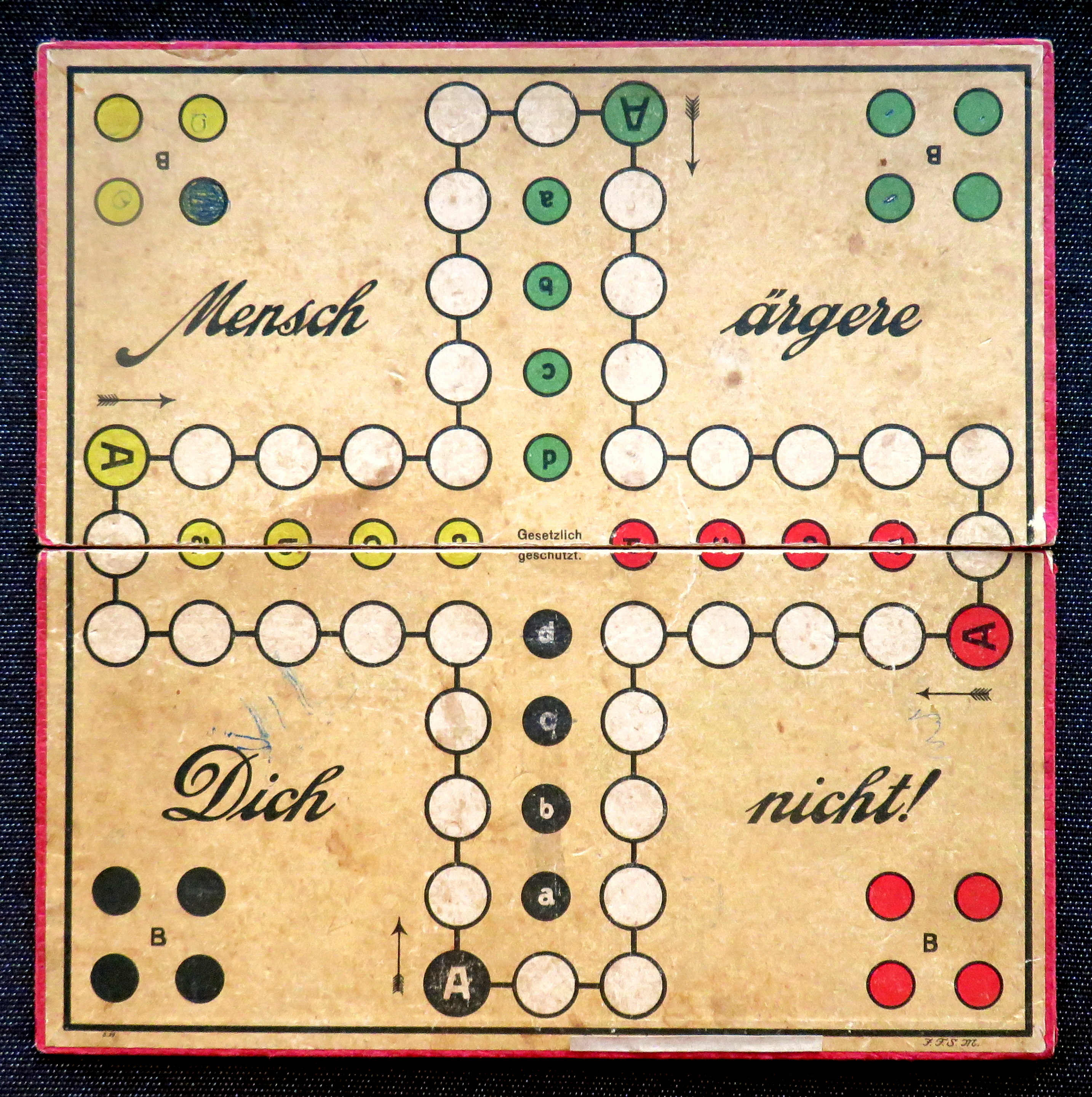 Intensively used Plan of the German board game Mensch ärgere dich nicht (“Man, don't get annoyed”), edition of 1929 (front), Details.